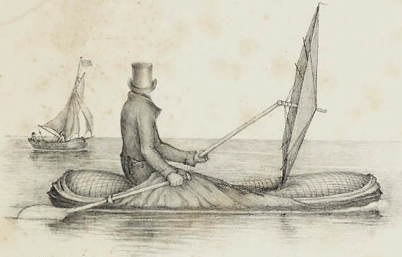 Diagram showing the Halkett Boat Cloak in use as a boat